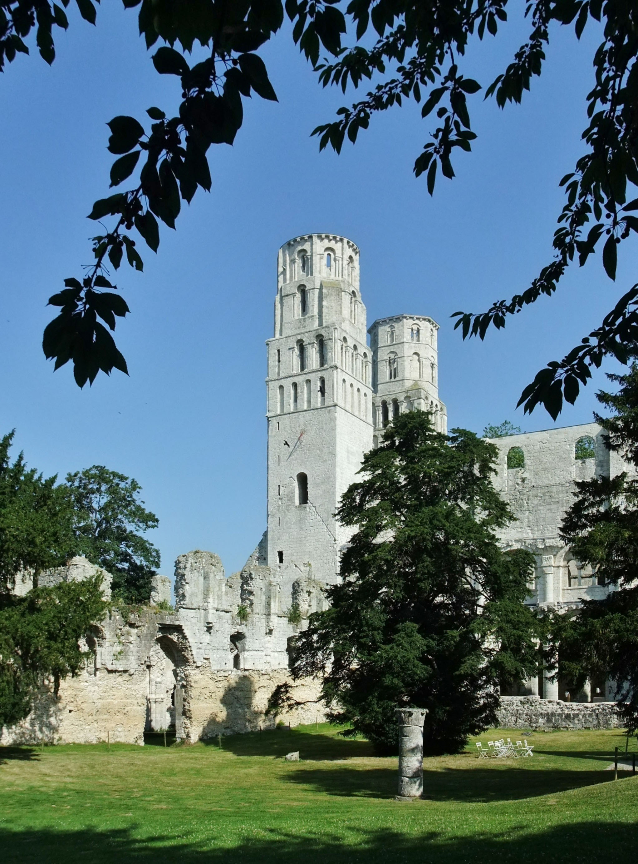 Church of the Abbey of Jumièges, France